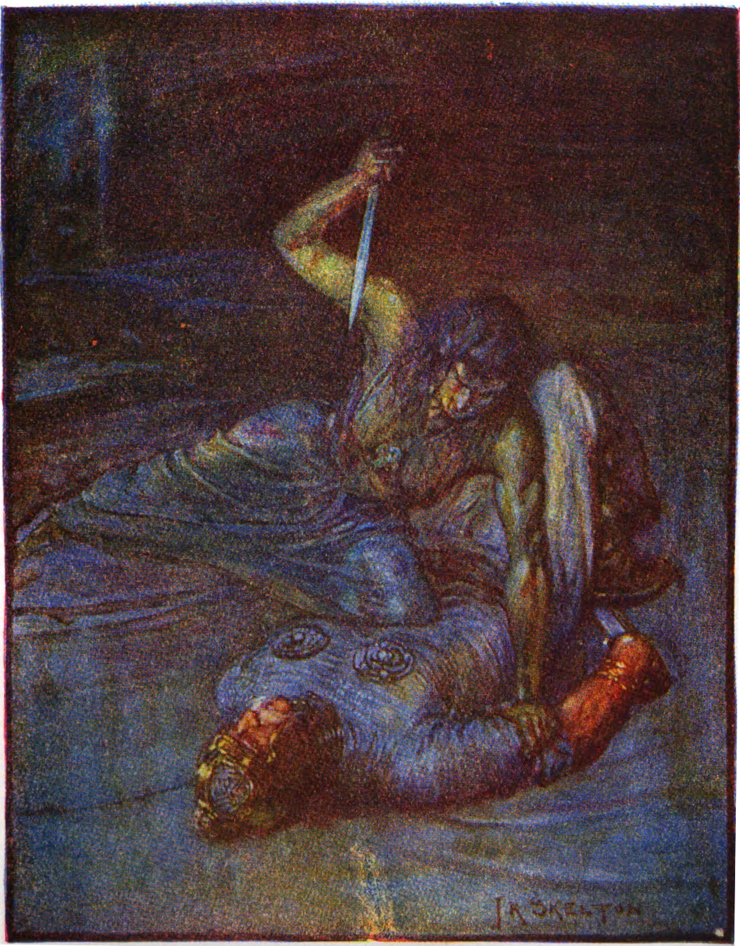 "Then in wrath Beowulf threw the shining blade upon the ground. He would trust no more in weapons but with his hands alone would he fight. Seizing the Water Witch by the shoulders, he dragged her downwards. But she grappled with him fiercely. Then was there a fearful fight in that dim hall, deep under the water, far from all hope of help. Back and forth the two swayed, the strong warrior in armour and the direful Water Witch. So strong was she that at last she bore him to the ground and kneeled upon his breast. She drew her dagger. Now she would avenge her son, her only son. The dagger shone and fell again and yet again. And then truly Beowulf's last hour had come had his armour not been of such trusty steel. But through it neither point nor edge of dagger might pierce. The blows of the Water Witch were all in vain, and again Beowulf sprang to his feet." An illustration of the water witch trying to stab Beowulf. Marshall, Henrietta Elizabeth (1908) Stories of Beowulf, T.C. & E.C. Jack, p. 59 Stories of Beowulf-1 Page 082 Image 0002.jpg